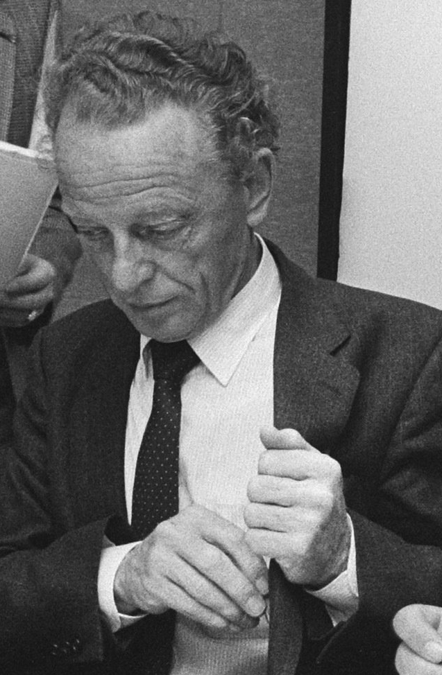 Andries Twijnstra tijdens persconferentie Commissie Polak m.b.t. eindrapport ABP affaire, 1984